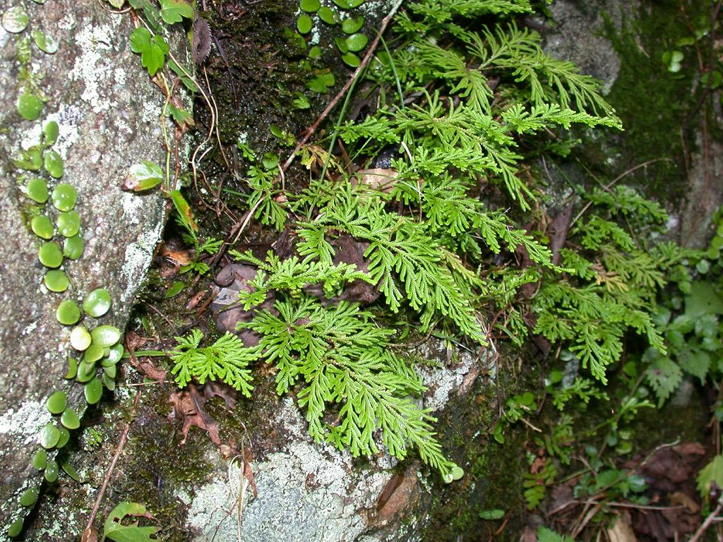 Selaginella involens (Selaginellaceae) Japanese name: Katahiba Date;2006,09;Tanabe city,Wakayamapref. Japan Author; Keisotyo